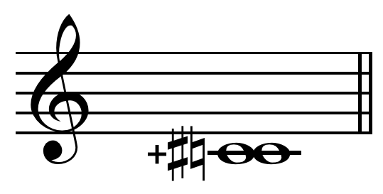 Major limma/Greater chromatic semitone on C = C♯+ (Ben Johnston's notation). 135:128 = 92.18 cents. Limit: 5-limit. 135th harmonic.